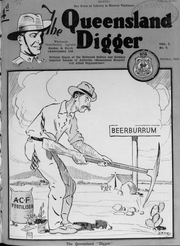 Illustration of a farmer working in the field at Beerburrum, 1925 This illustration was on the cover of the The Queensland Digger and titled The Queensland 'Digger'.